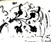 Floral decoration of a privilege signed 17 March 1413 at Barcelona by Ferdinand I of Aragon and confirming to the Consistori de Barcelona the concessions made earlier by himself, John I, and Martin. Now preserved in the Arxiu de la Corona d'Aragó (2393, ff. 44–5) and in the Cançoneret d'amor, now BnF esp. 225.